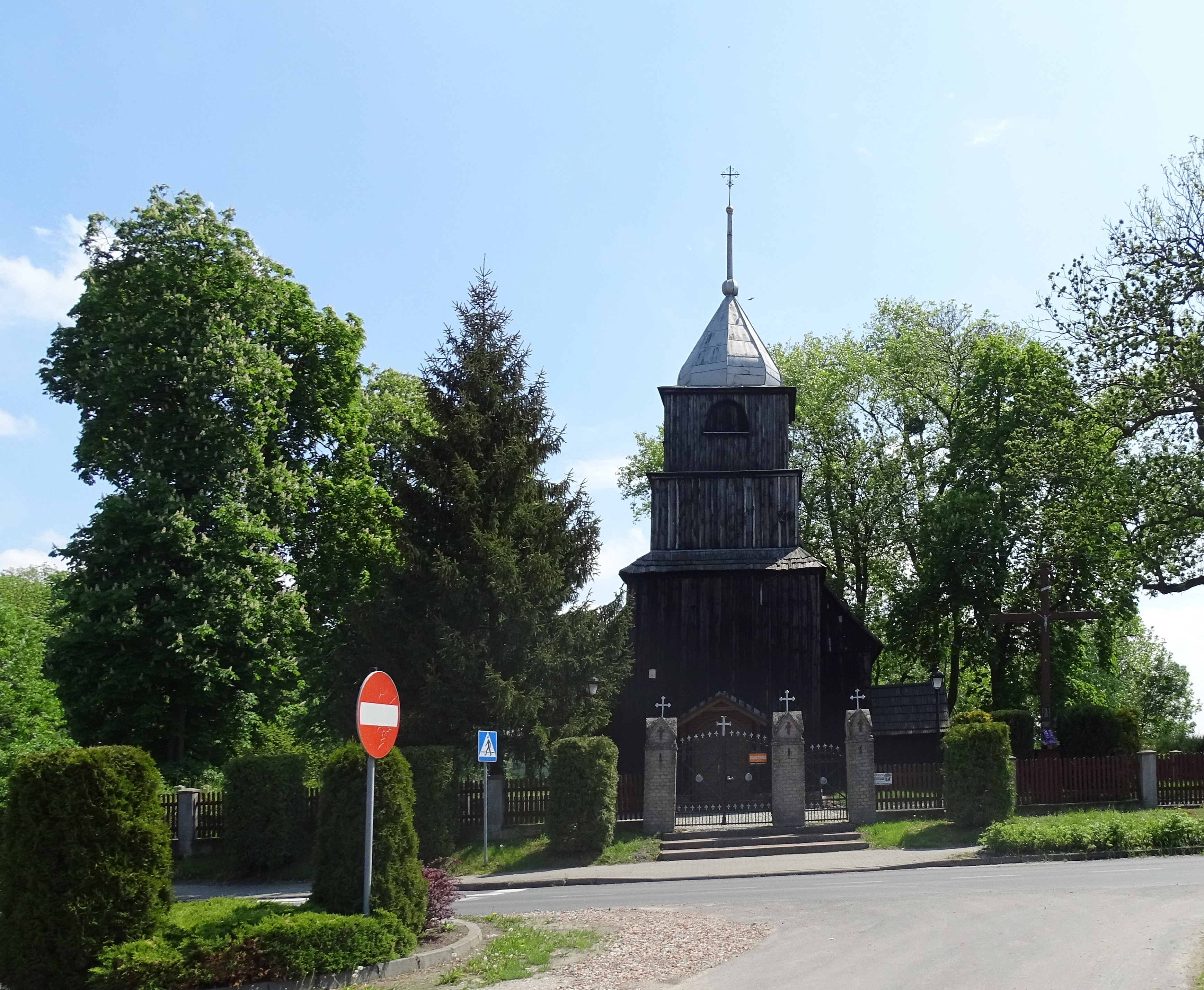 Podlesie Kościelne, Wągrowiec county, Poland. Church of Saint Ann. Founded in 1712 by Jan Rydzyński of the Wierzbna coat of arms, owner of Podlesie Kościelne among others.